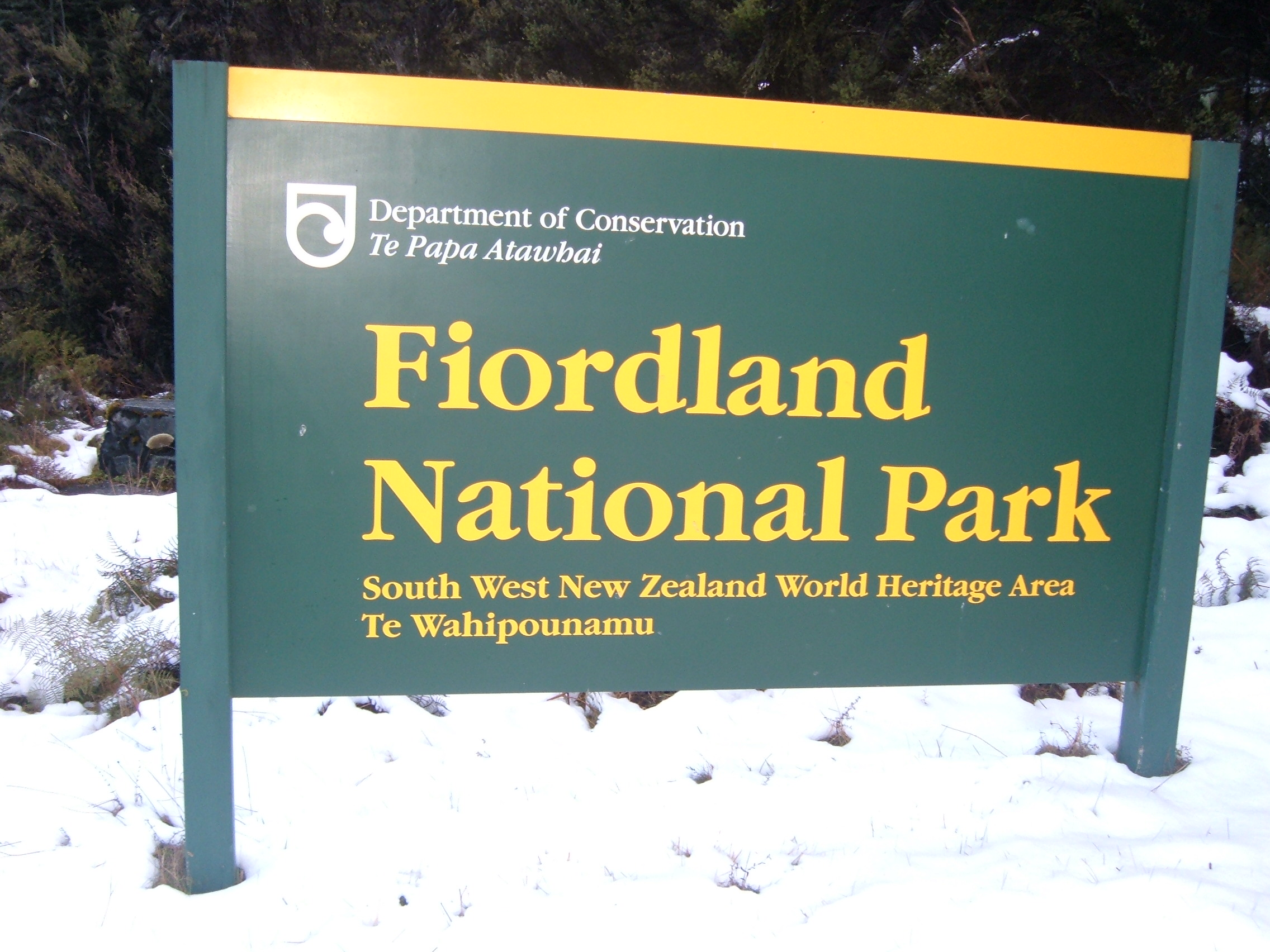 Taken by me on Tuesday 21st September 2005 01:17, 24 September 2005 Swollib 2272x1704 (748152 bytes) (Taken by me on Tuesday 21st September 2005)